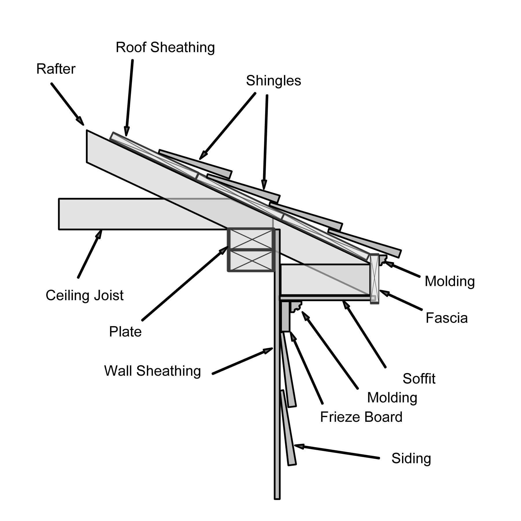 A diagram of a wide box cornice with lookouts and showing the positions of the wall sheathing, plate, rafter, ceiling joist, shingles, roof sheathing, fascia, soffit, frieze board, siding, and moulding